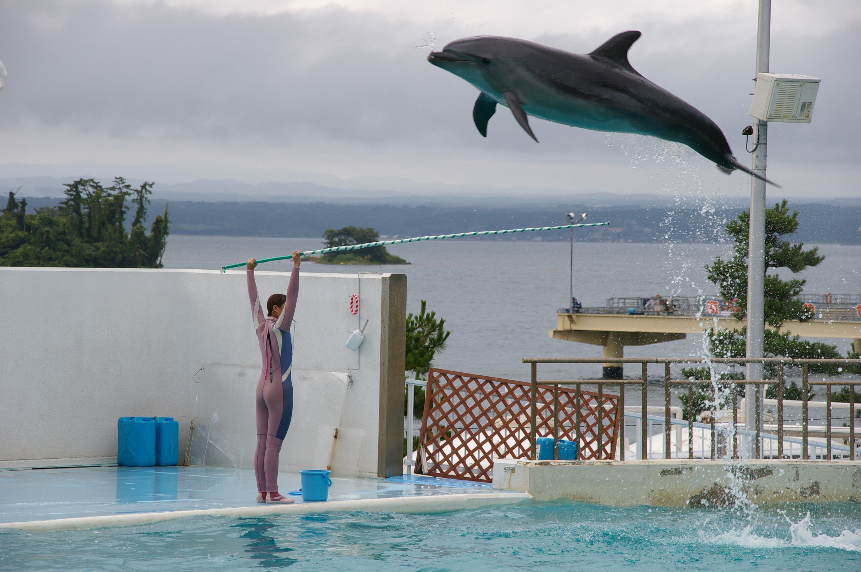 A bottlenose dolphin jumping at Notojima Aquarium, Ishikawa, Japan.